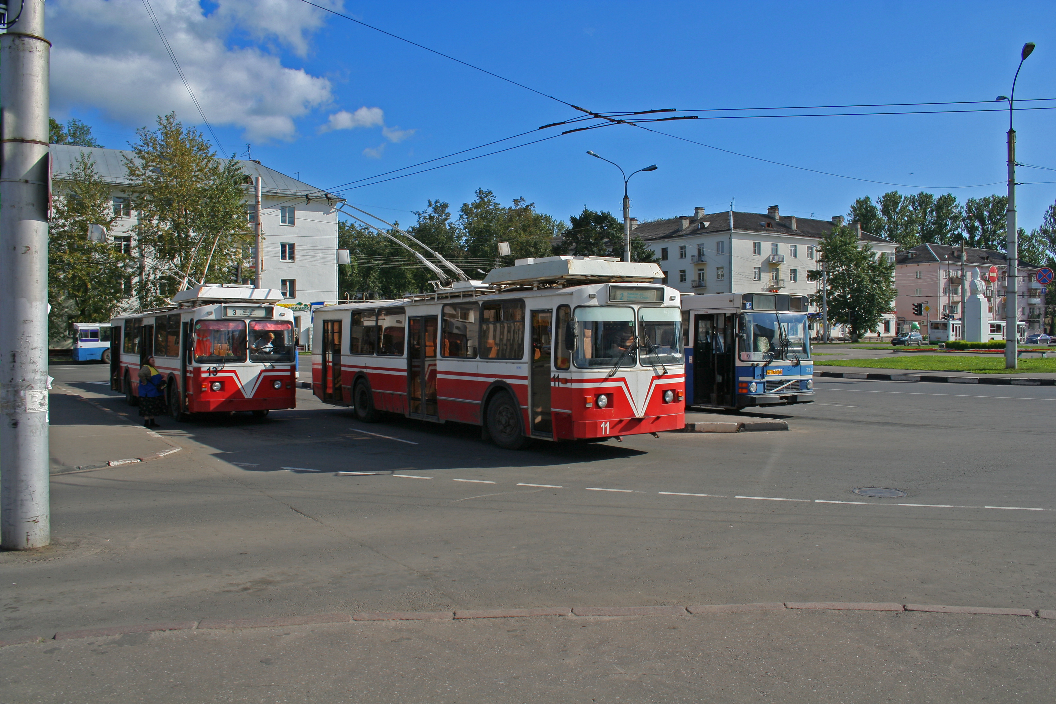 Views of Velikiy Novgorod. A bus and some trolleys at the main train station.